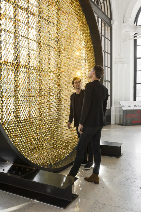 Portrait of Patrik Fredrikson and Ian Stallard